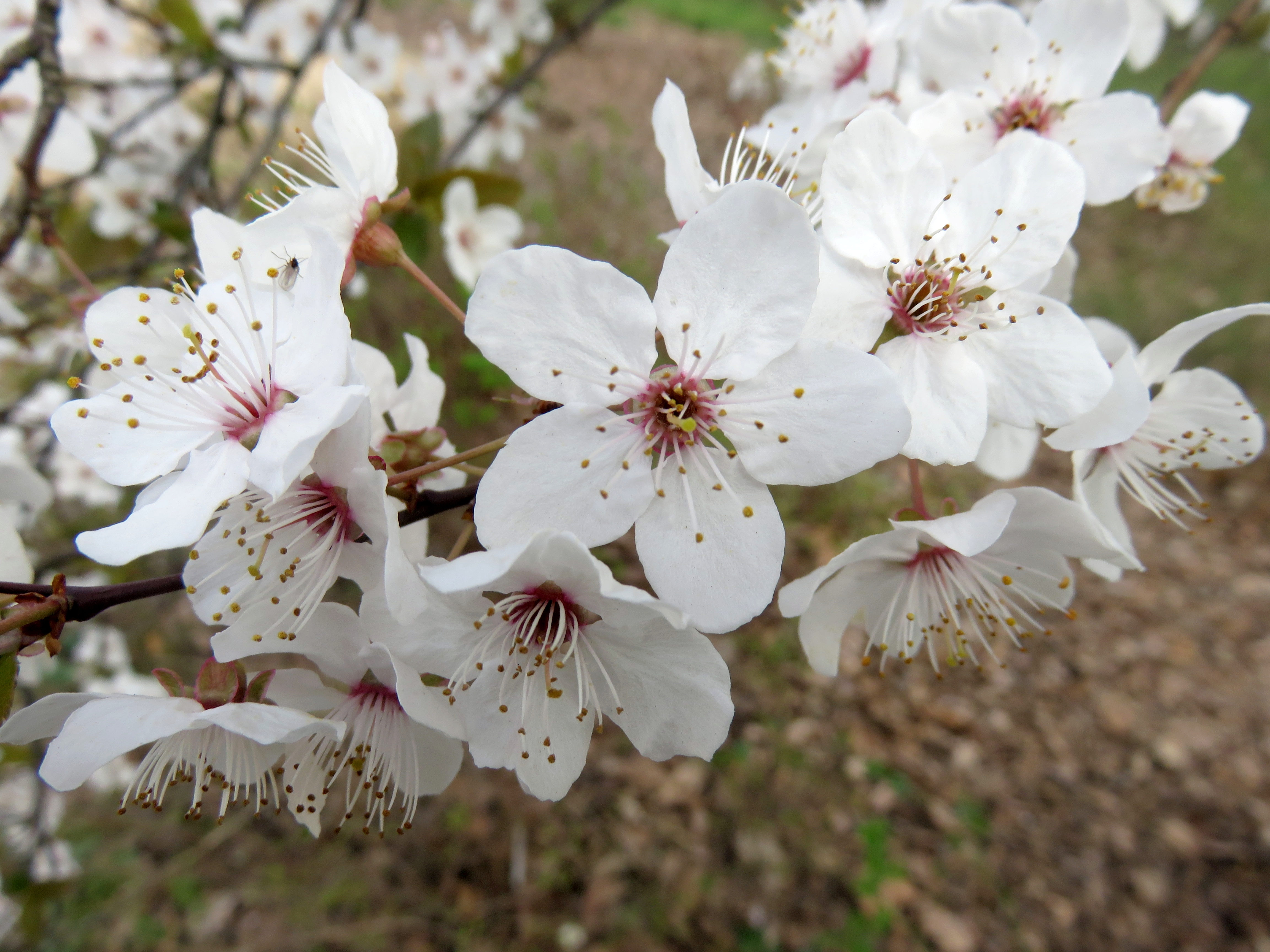 Cherry plum (Prunus cerasifera) - var. 'Mykla', Zoological and botanical garden Plzen.